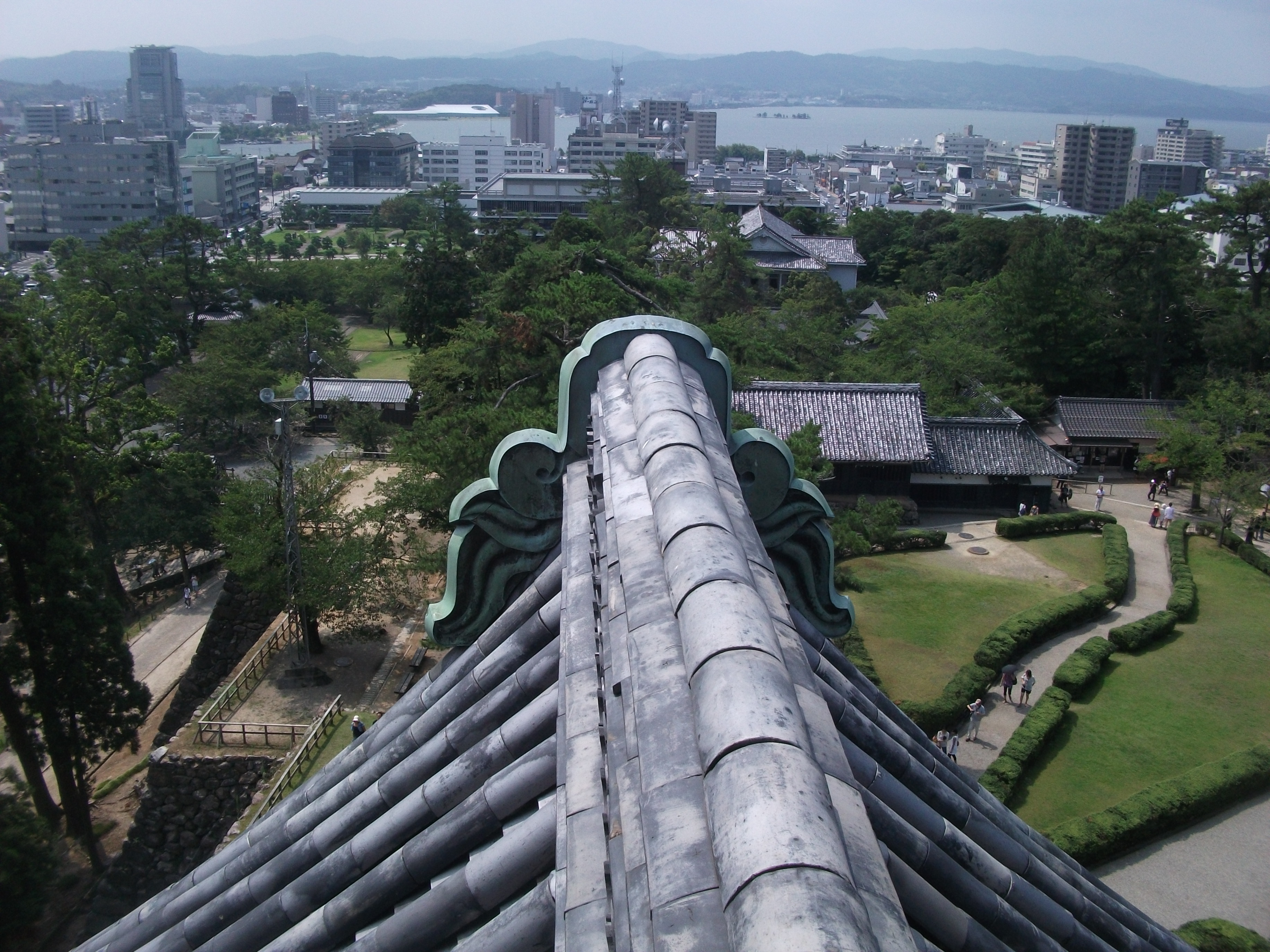 Castle Tower of Matsue Castle, Matsue City, Shimane Prefecture, Japan; View on Lake Shinji, Yomegashima Island and the Art Museum of Shimane